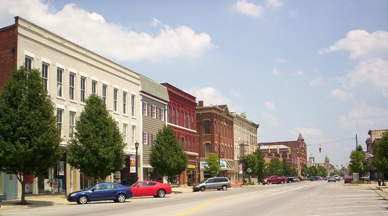 Downtown Norwalk, Ohio on West Main Street.